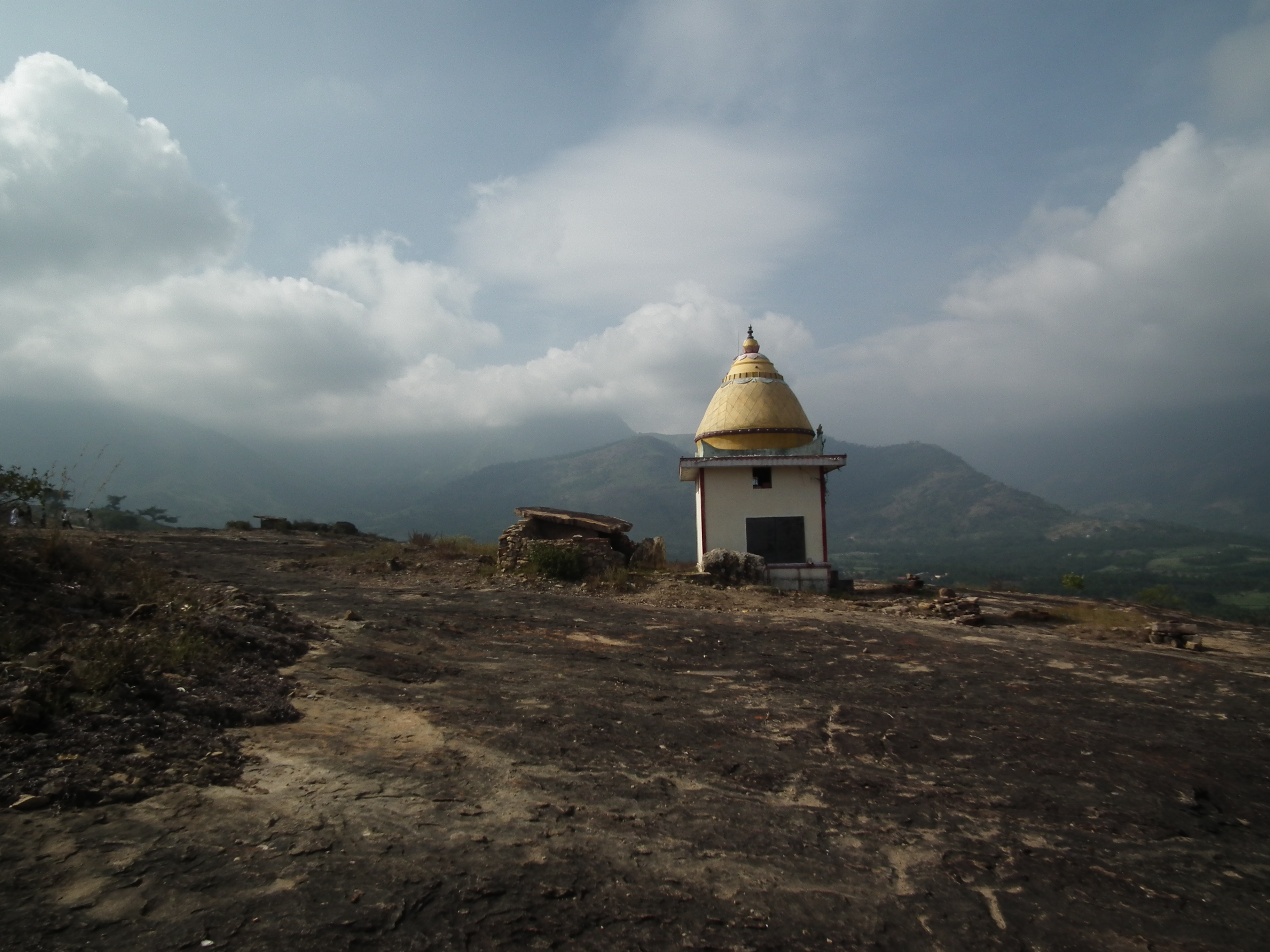 A view point at Kanthalloor